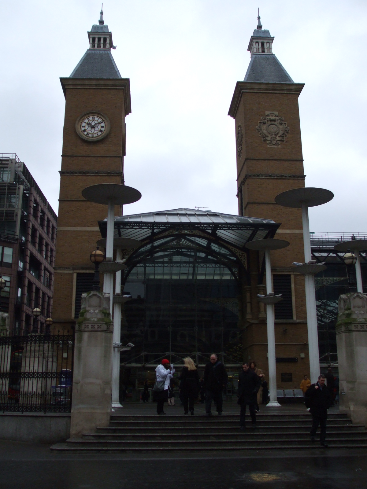 Liverpool Street mainline station entrance on Liverpool Street itself